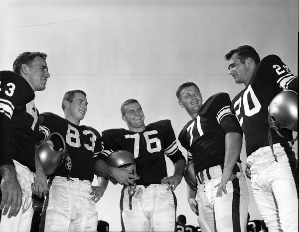 Persistent URL: Local call number: TD00481 Title: FSU football players in Tallahassee, Florida Date: December 16, 1957 Physical descrip: 1 photonegative - b&w - 4 x 5 in. Series Title: Tallahassee Democrat Collection Repository: State Library and Archives of Florida 500 S. Bronough St., Tallahassee, FL, 32399-0250 USA, Contact: 850.245.6700